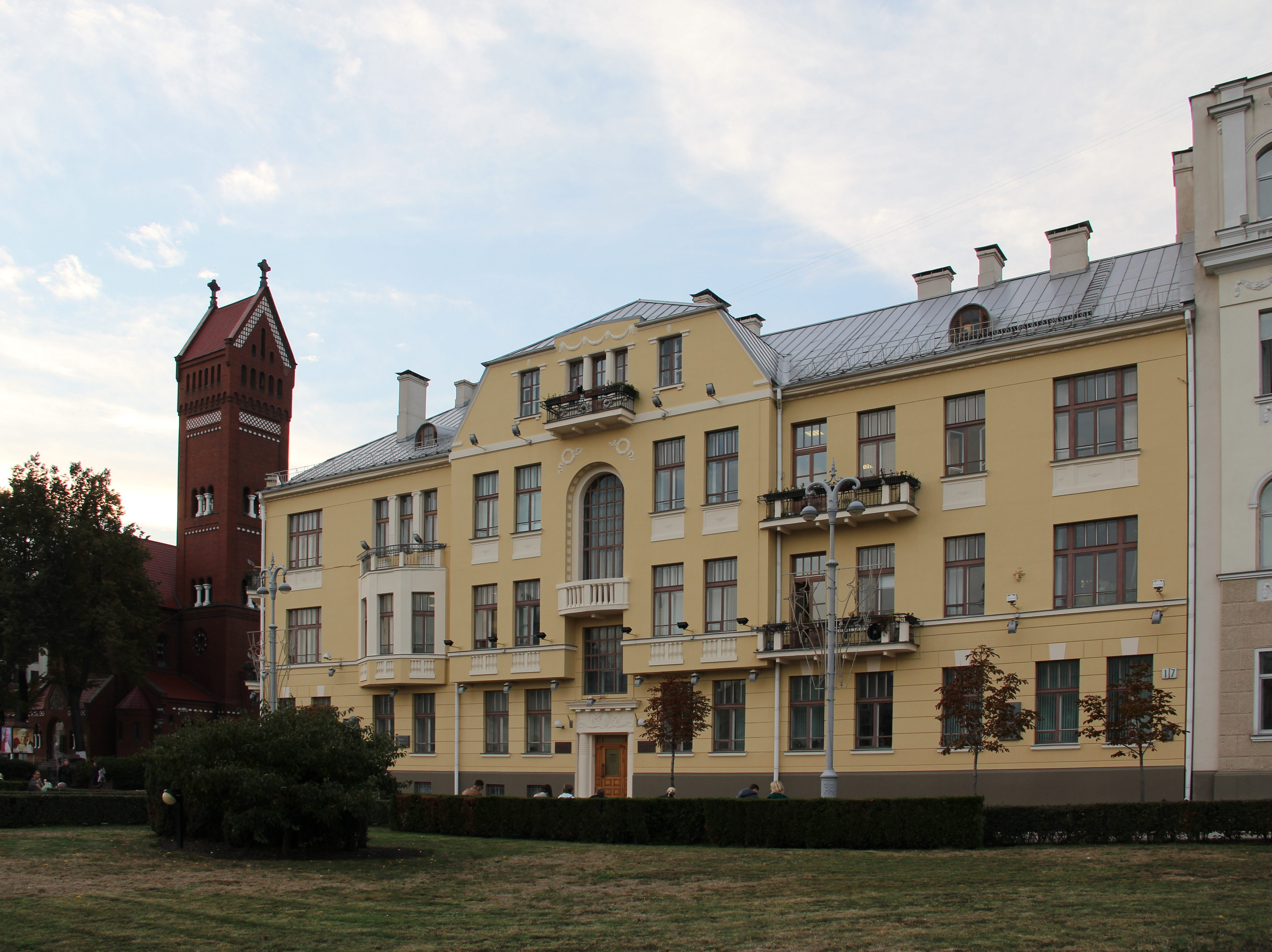 Беларуская (тарашкевіца): Будынак. г. Менск This is a photo of Belarusian heritage monument. Reference number: 713Г000231 ( WLM)